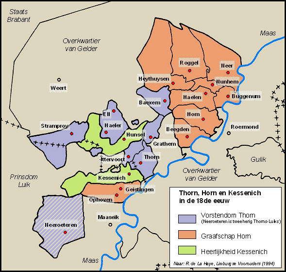 Map of the principalities Thorn, Horn and Kessenich around 1700. Adaptation of map in Régis de La Haye, "Limburgse voorouders" (1994), p. 86.